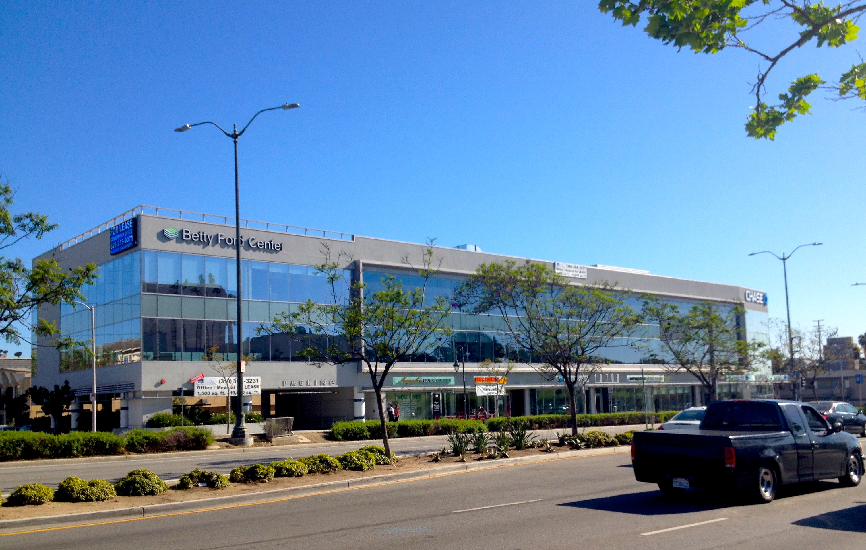 Center for Healthy Sex building, 10700 Santa Monica Boulevard in West Los Angeles